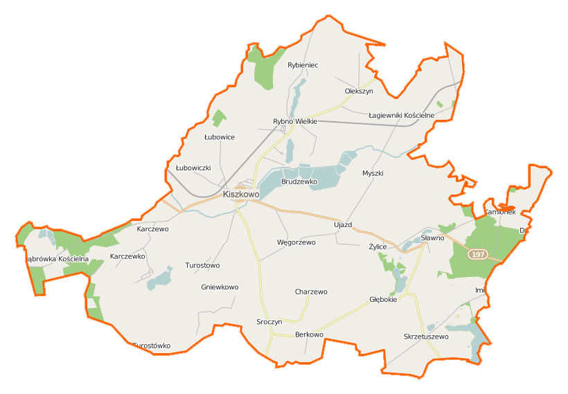 Map of Gmina Kiszkowo, Poland This map of Kiszkowo (gmina) was created from OpenStreetMap project data, collected by the community. This map may be incomplete, and may contain errors. Don't rely solely on it for navigation. Border coordinates52.648317.1428←↕→17.424352.5296